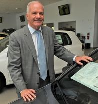 picture of Mr. Quirk